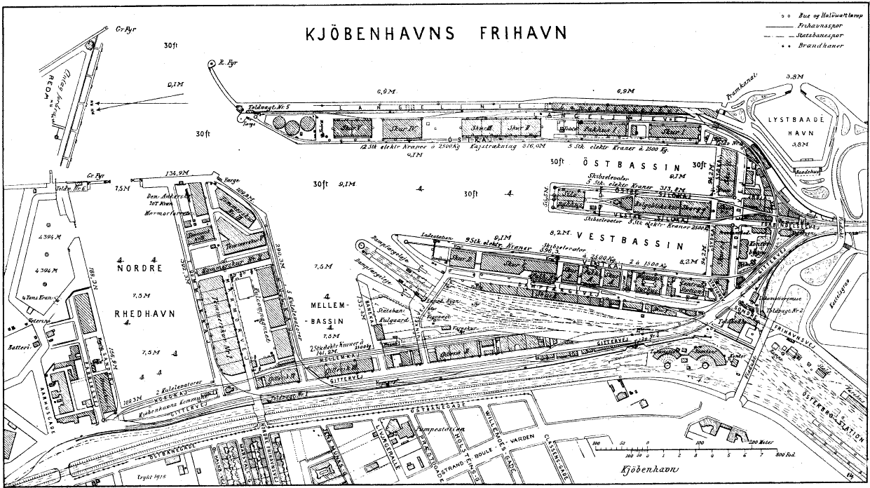 Map of the Free Port of Copenhagen, printed in Salmonsens Konversationsleksikon (1915-30), which is public domain. Part 1.